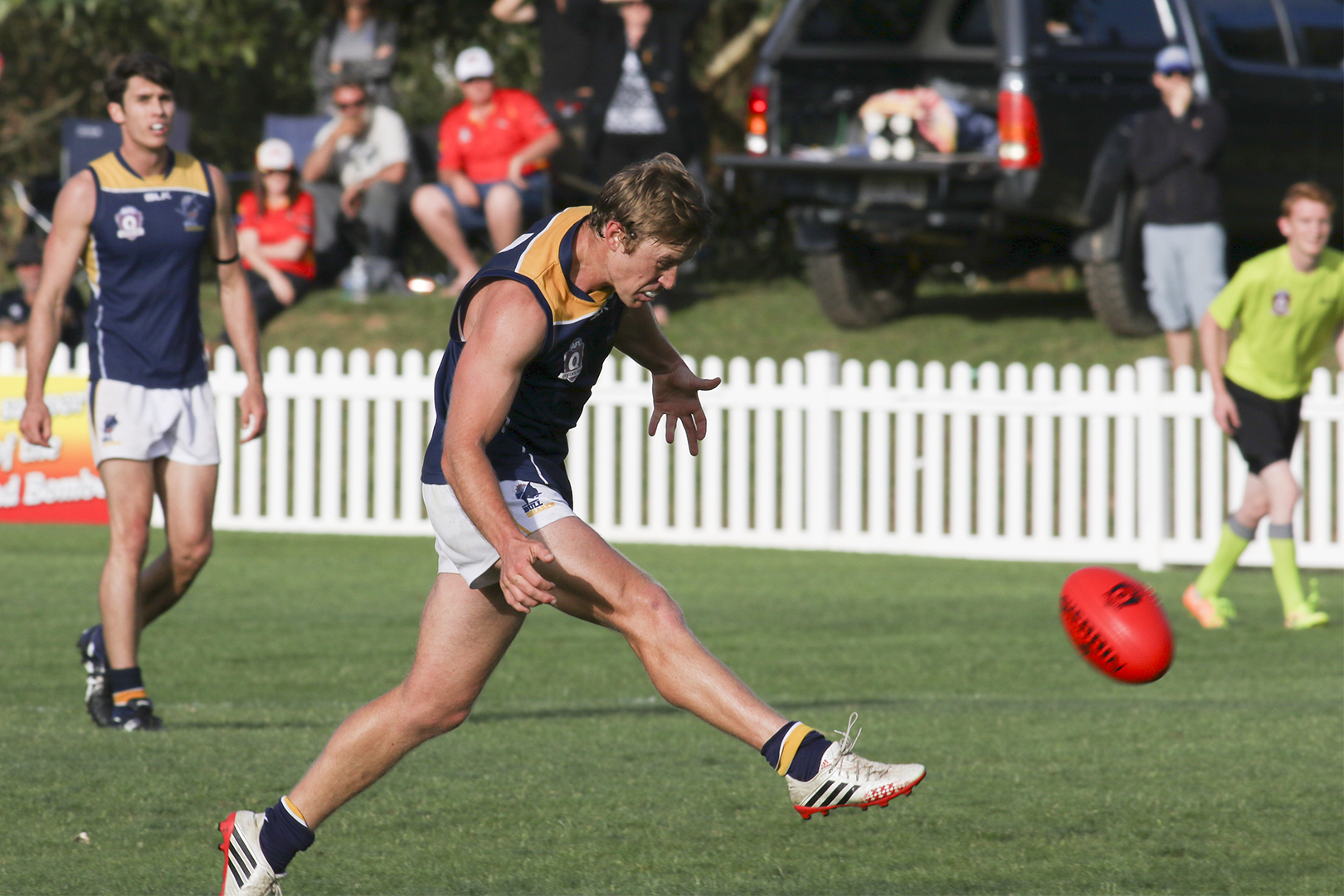 Australian rules football executes a drop punt during a Bond University Bullsharks vs. South East Suns match